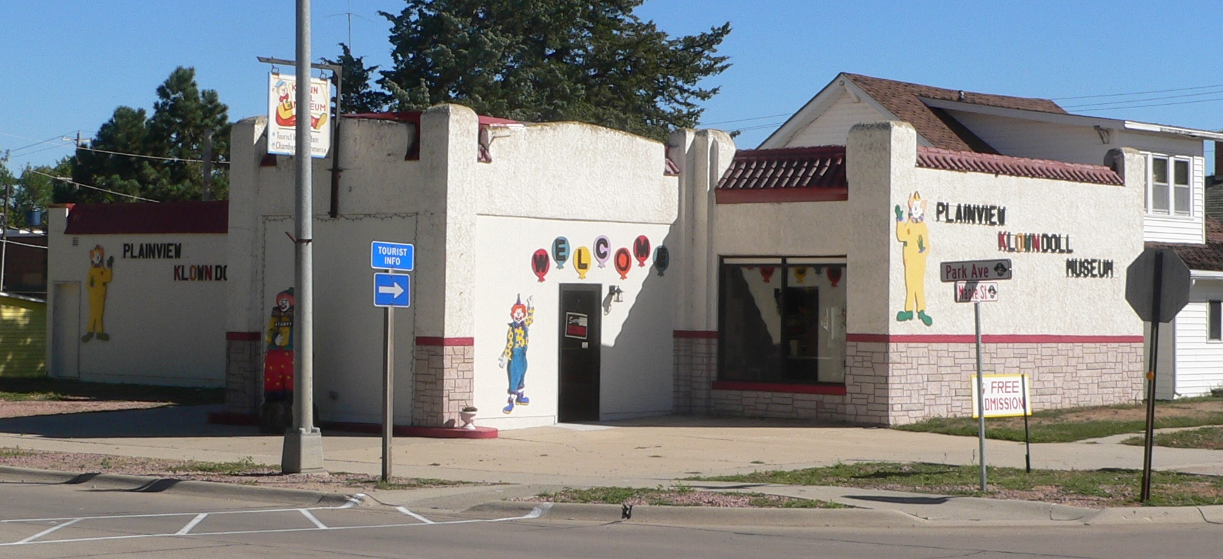 Plainview Klown Doll Museum, located at southeast corner of Park Avenue (U.S. Highway 20) and Maple Street in Plainview, Nebraska.